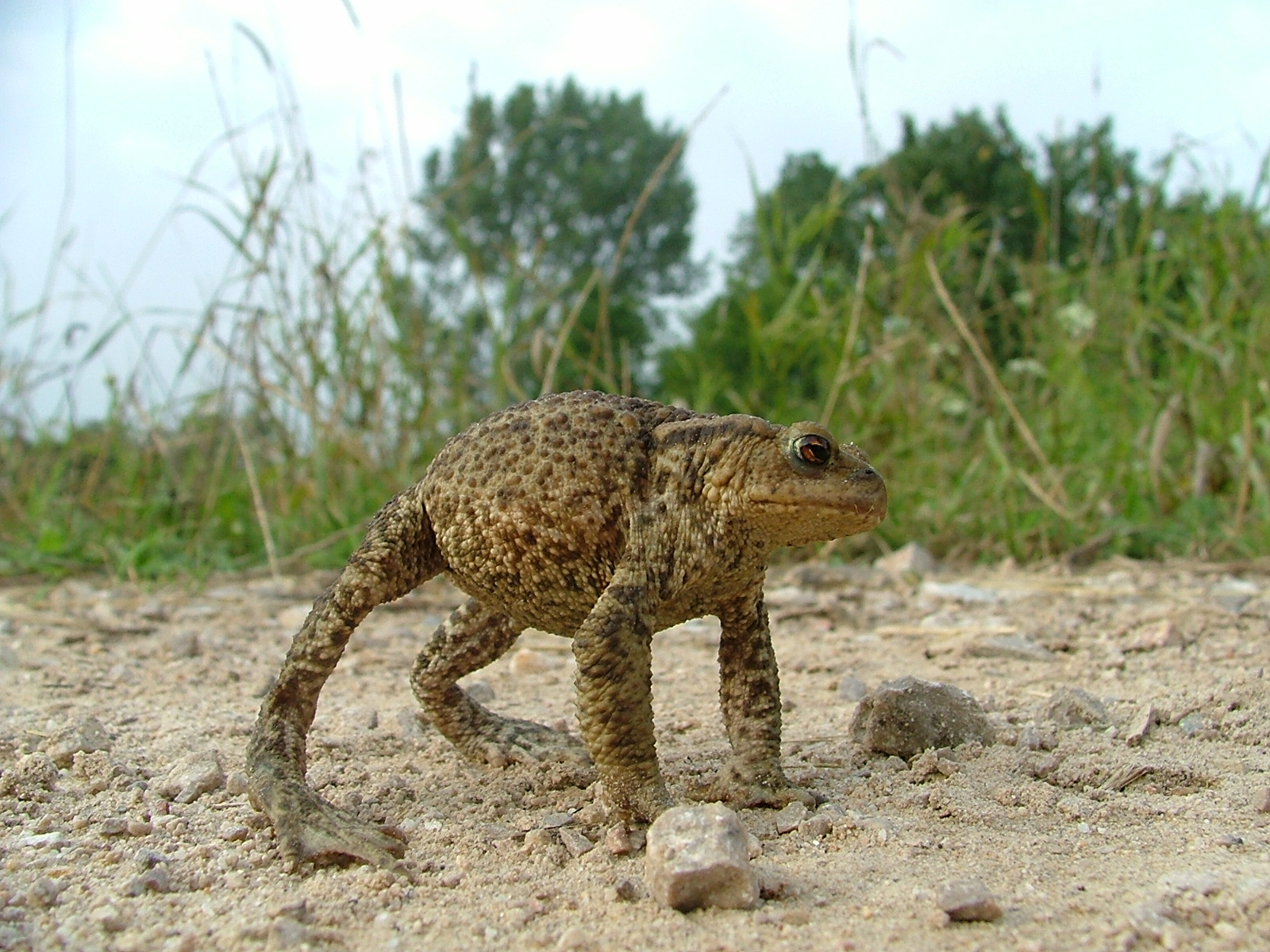 Common Toad (Bufo bufo), defensive reaction